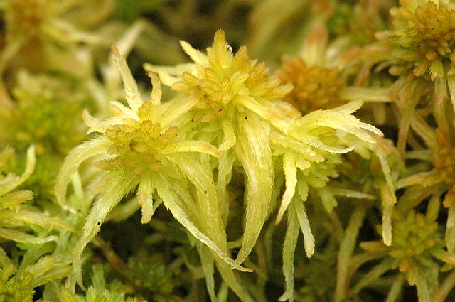 Picture taken in Commanster, Belgian High Ardennes . Species: Sphagnum fimbriatum